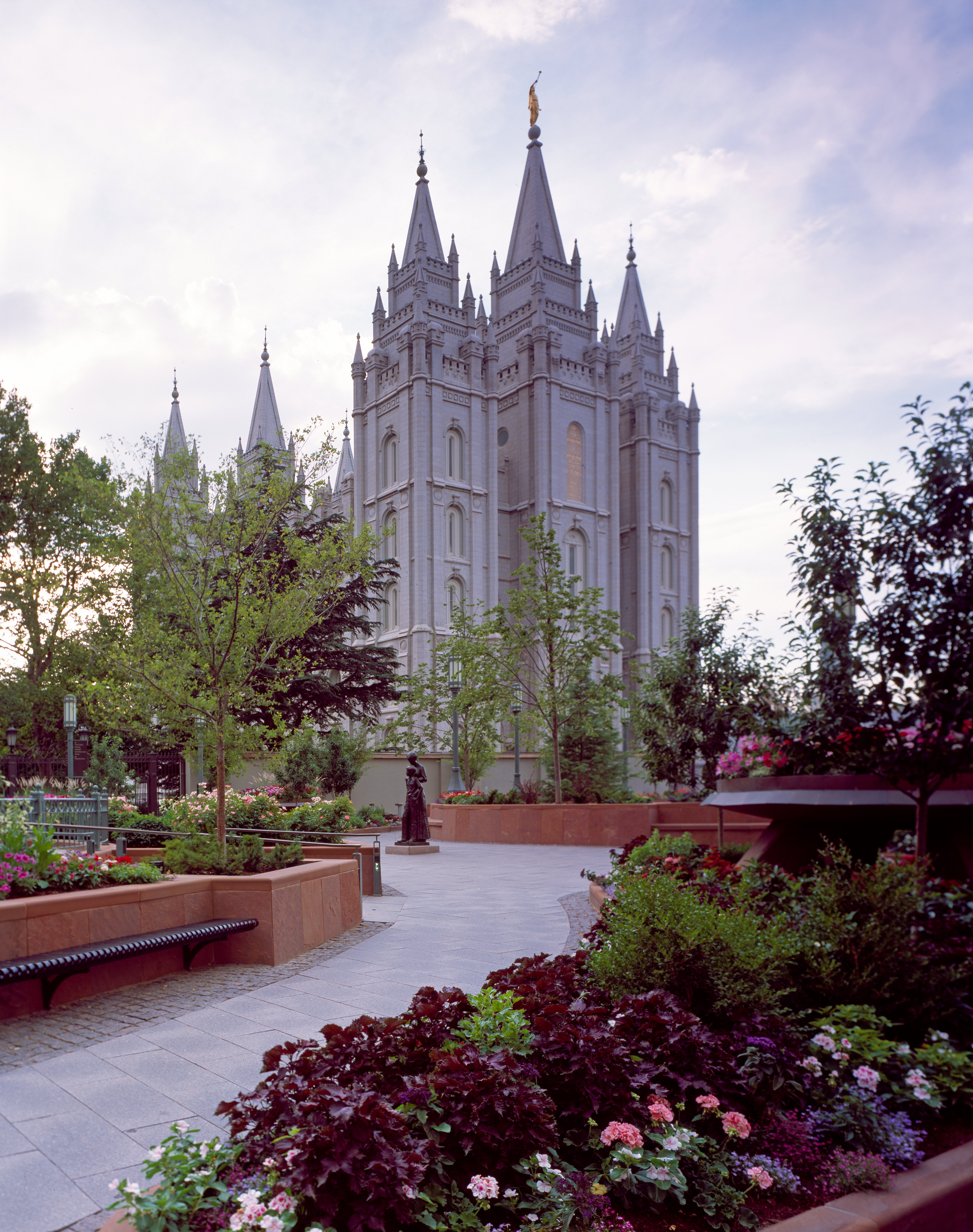 "The Salt Lake Temple, also known as the Mormon Temple, worship site of the Church of Christ of Latter-Day Saints in Salt Lake City, Utah"